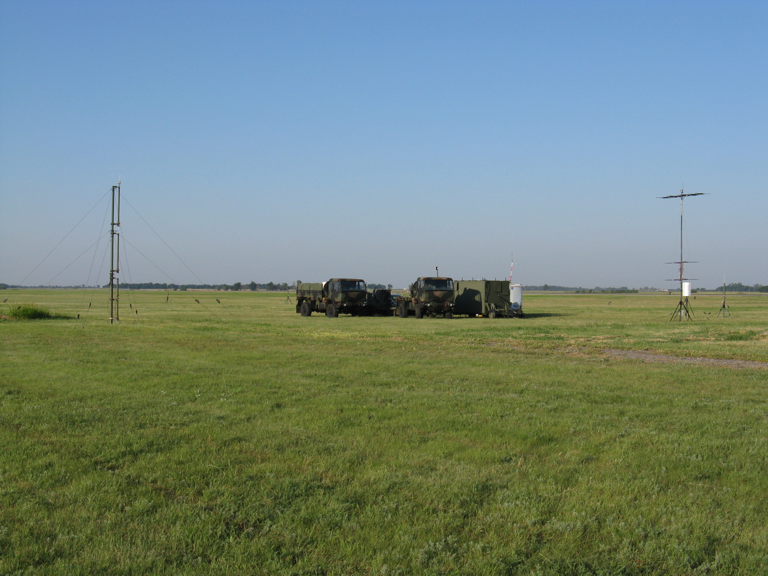 A USAF TTLS deployment